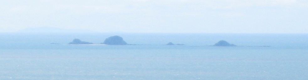 Rurima Island and the rest of the Rurima Rocks, viewed from Kaputerangi pā above Whakatāne.